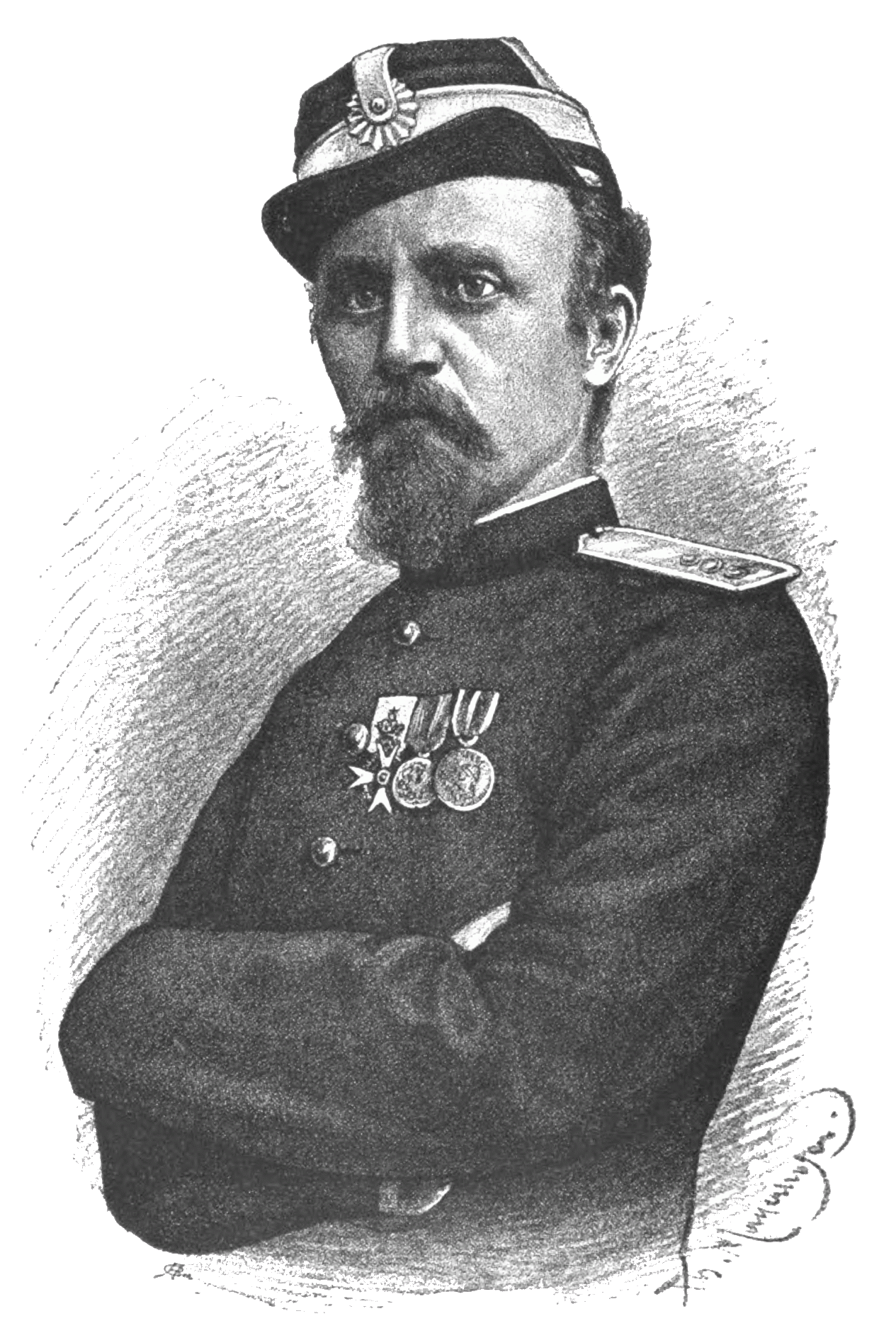 Laza K. Lazarević (1851–1891), Serbian physician and writer